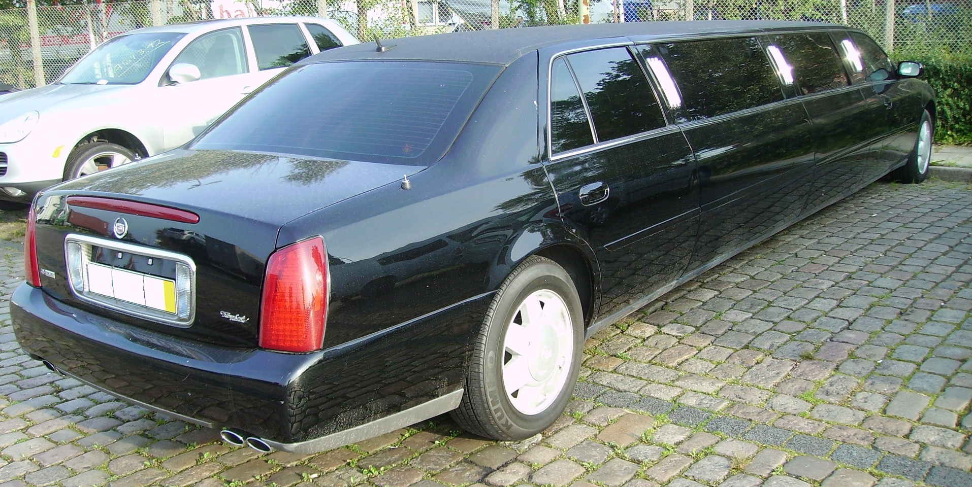 Rear view of a a Cadillac Deville stretch limousine